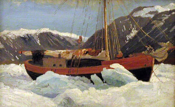 "Mechta" (Dream) Yacht stuck in the ice